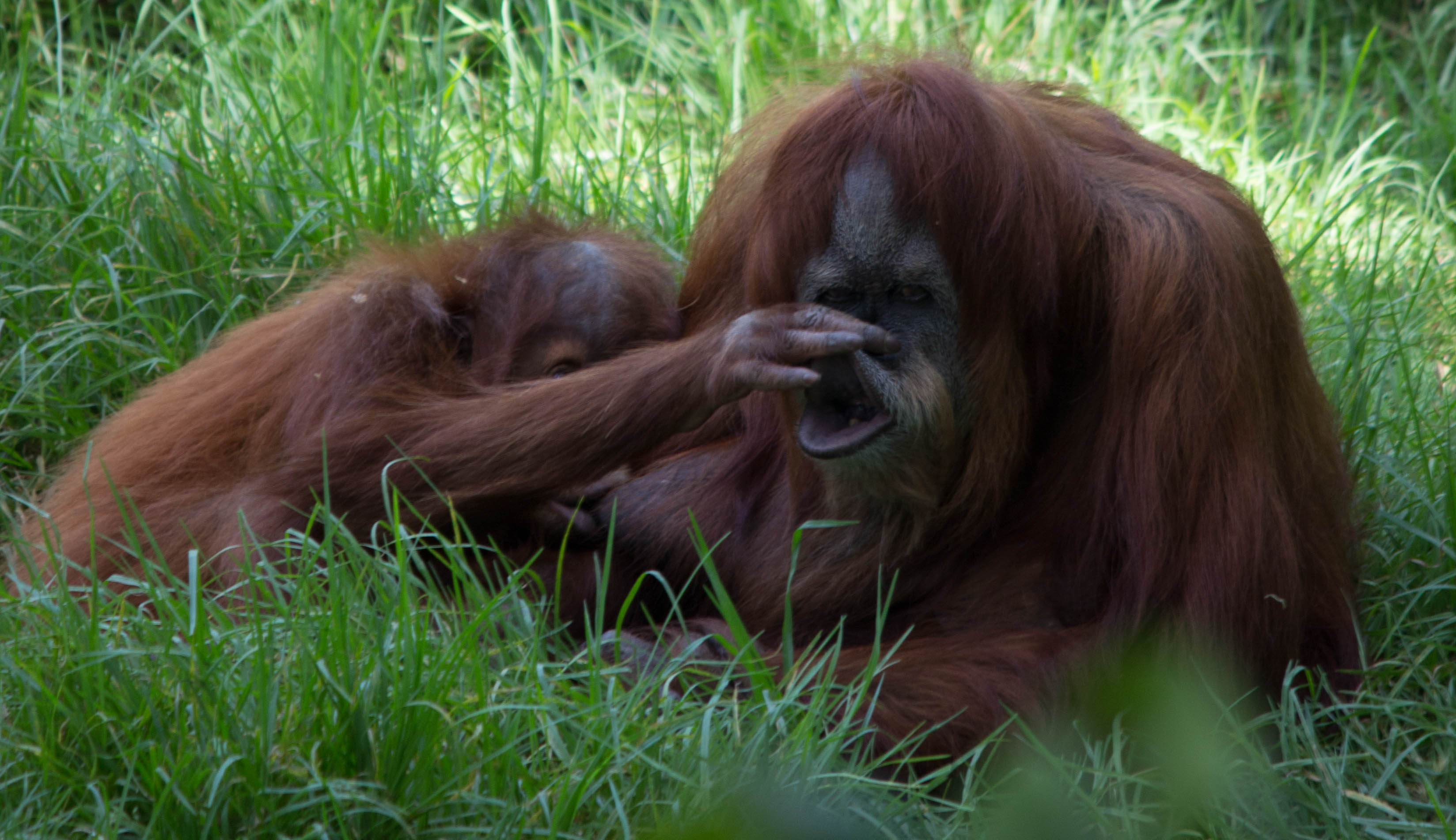 A pair of orangutans (male and female) in the safari park near the city of Ramat Gan in Israel.